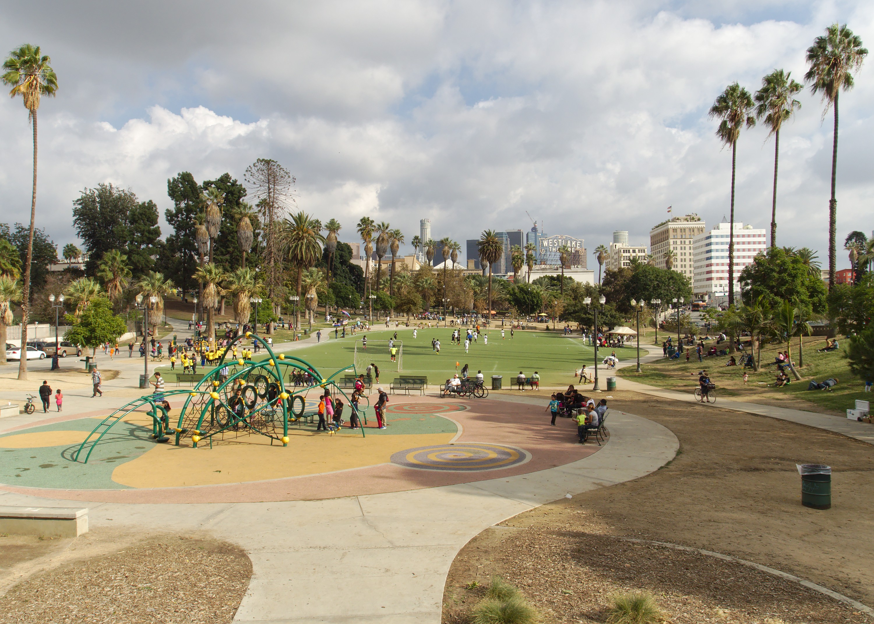 Playground and soccer fields on the portion of MacArthur Park north of Wilshire Boulevard, viewed from the west.